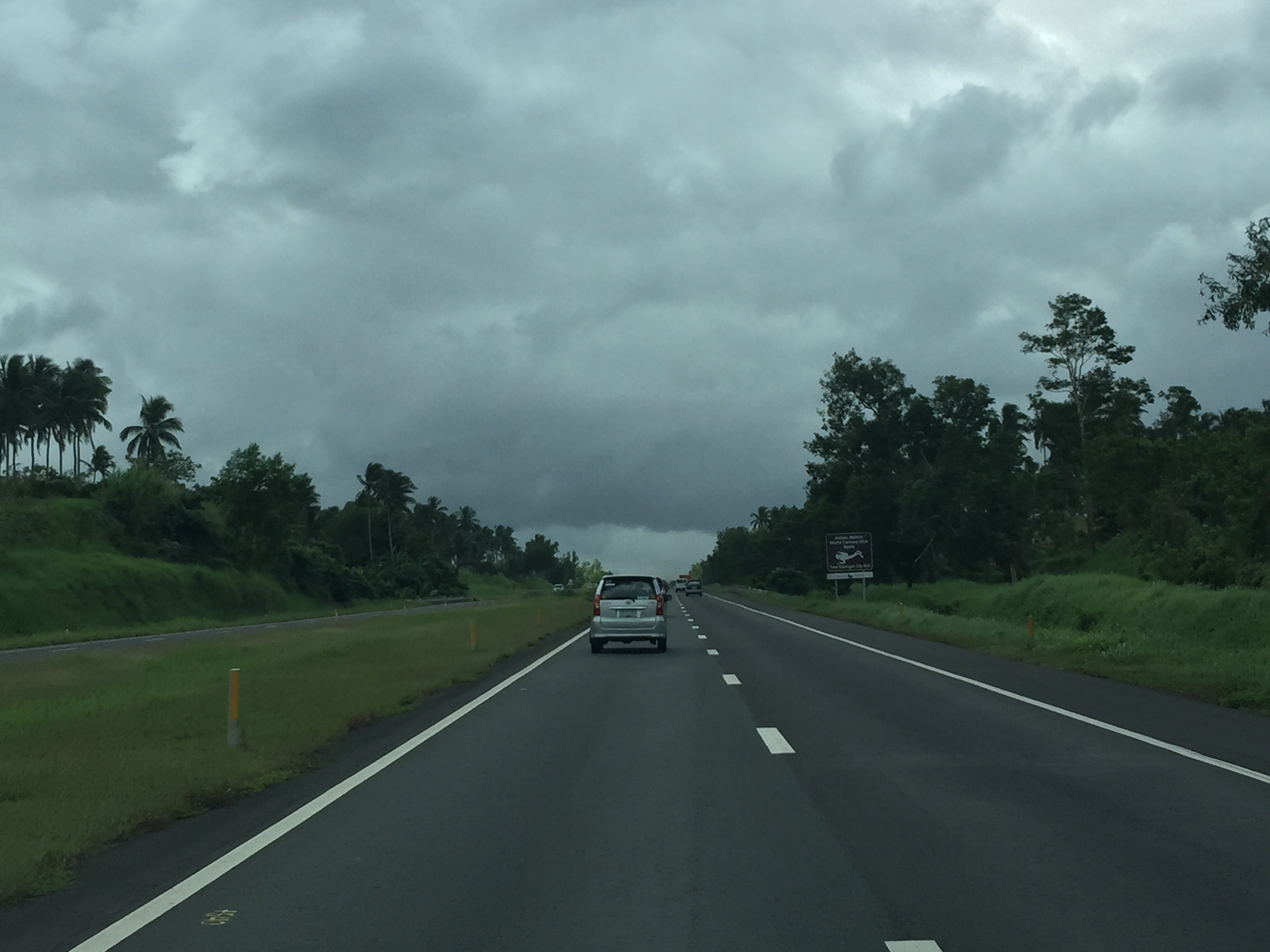 Southern Tagalog Arterial Road (STAR Tollway) southbound near Malvar, Batangas